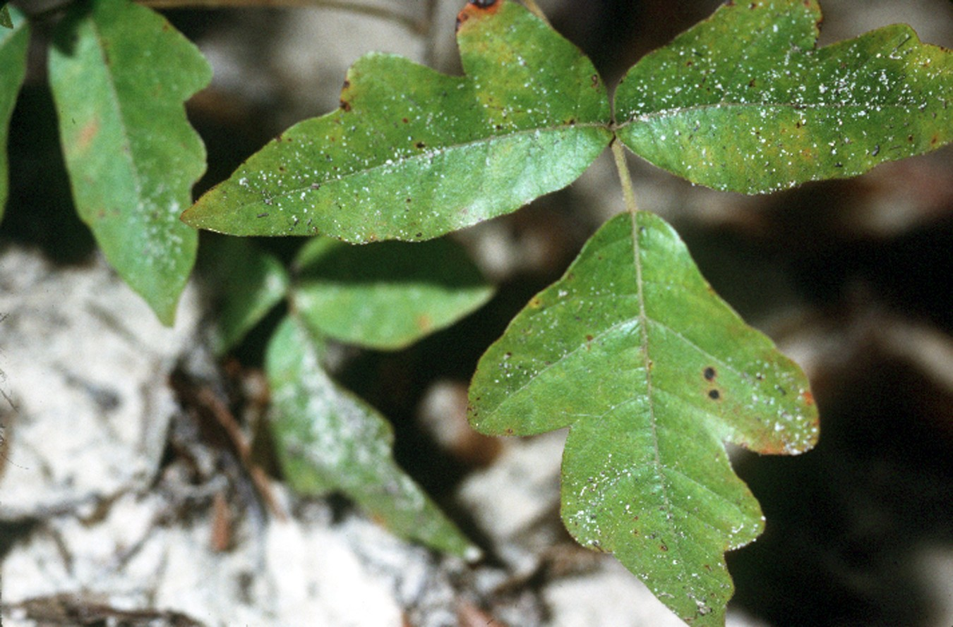 From Robert H. Mohlenbrock. USDA SCS. 1991. Southern wetland flora: Field office guide to plant species. South National Technical Center, Fort Worth, TX. Courtesy of USDA NRCS Wetland Science Institute. This image is not copyrighted and may be freely used for any purpose. Please credit the artist, original publication if applicable, and the USDA-NRCS PLANTS Database. The following format is suggested and will be appreciated: Robert H. Mohlenbrock @ USDA-NRCS PLANTS Database / USDA SCS. 1991. Southern wetland flora: Field office guide to plant species. South National Technical Center, Fort Worth, TX. If you cite PLANTS in a bibliography please use: USDA, NRCS. 2006. The PLANTS Database, 6 March 2006 ( Data compiled from various sources by Mark W. Skinner. National Plant Data Center, Baton Rouge, LA 70874-4490 USA.